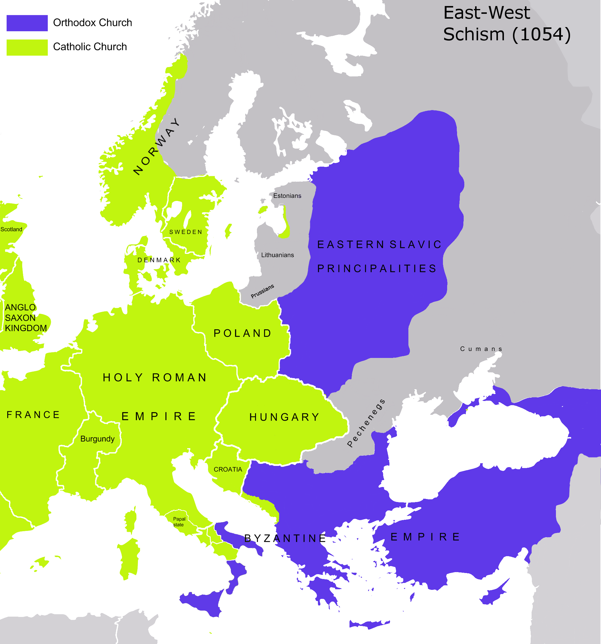 The map of the eastern/western allegiances in 1054 with the former country borders (showing dominant religions on a state level).